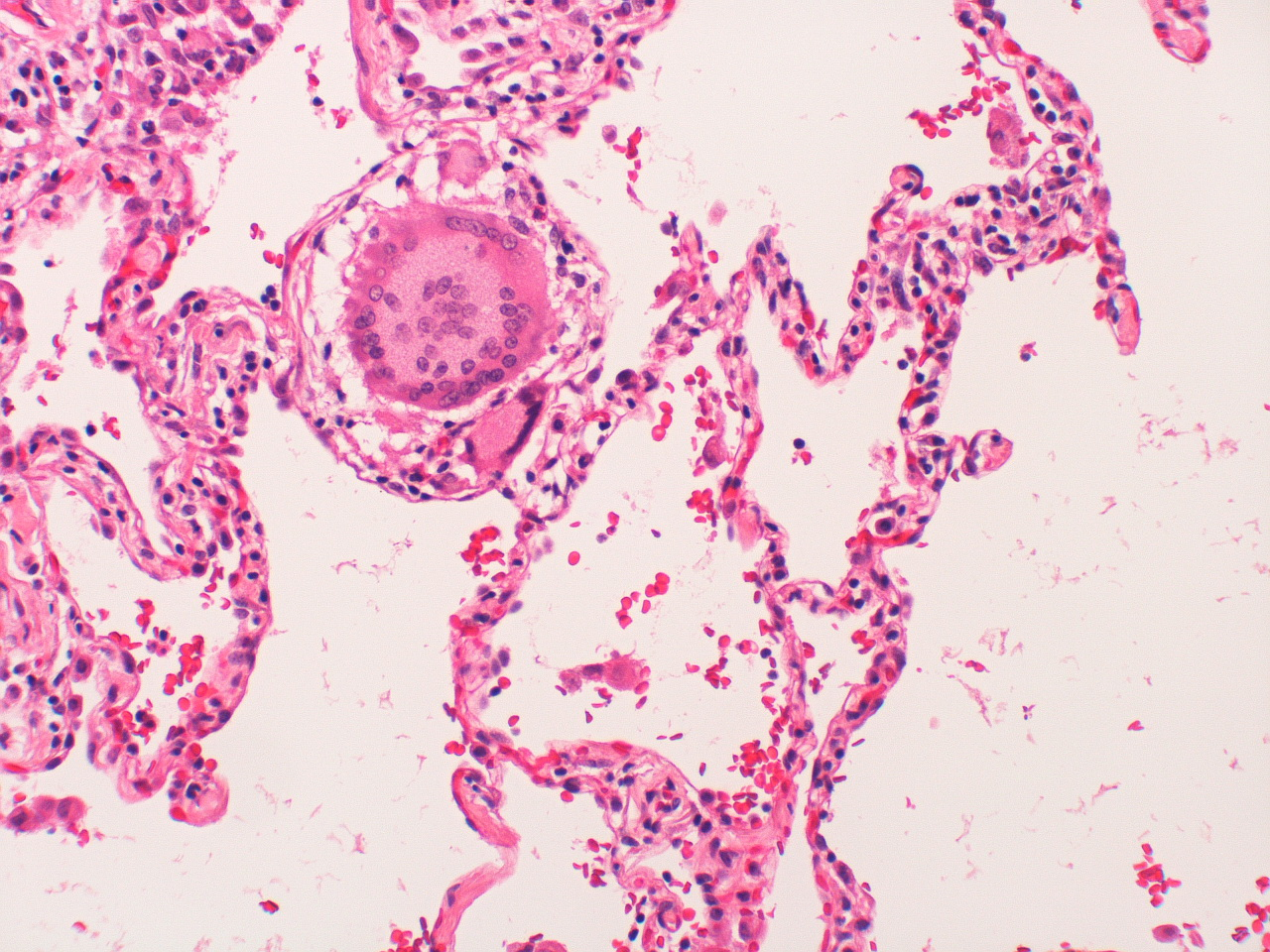 Interstitial multinucleate giant cells. Scattered individual or small groups of giant cells are a common finding in hypersensitivity pneumonitis and may far outnumber granulomas in some cases.